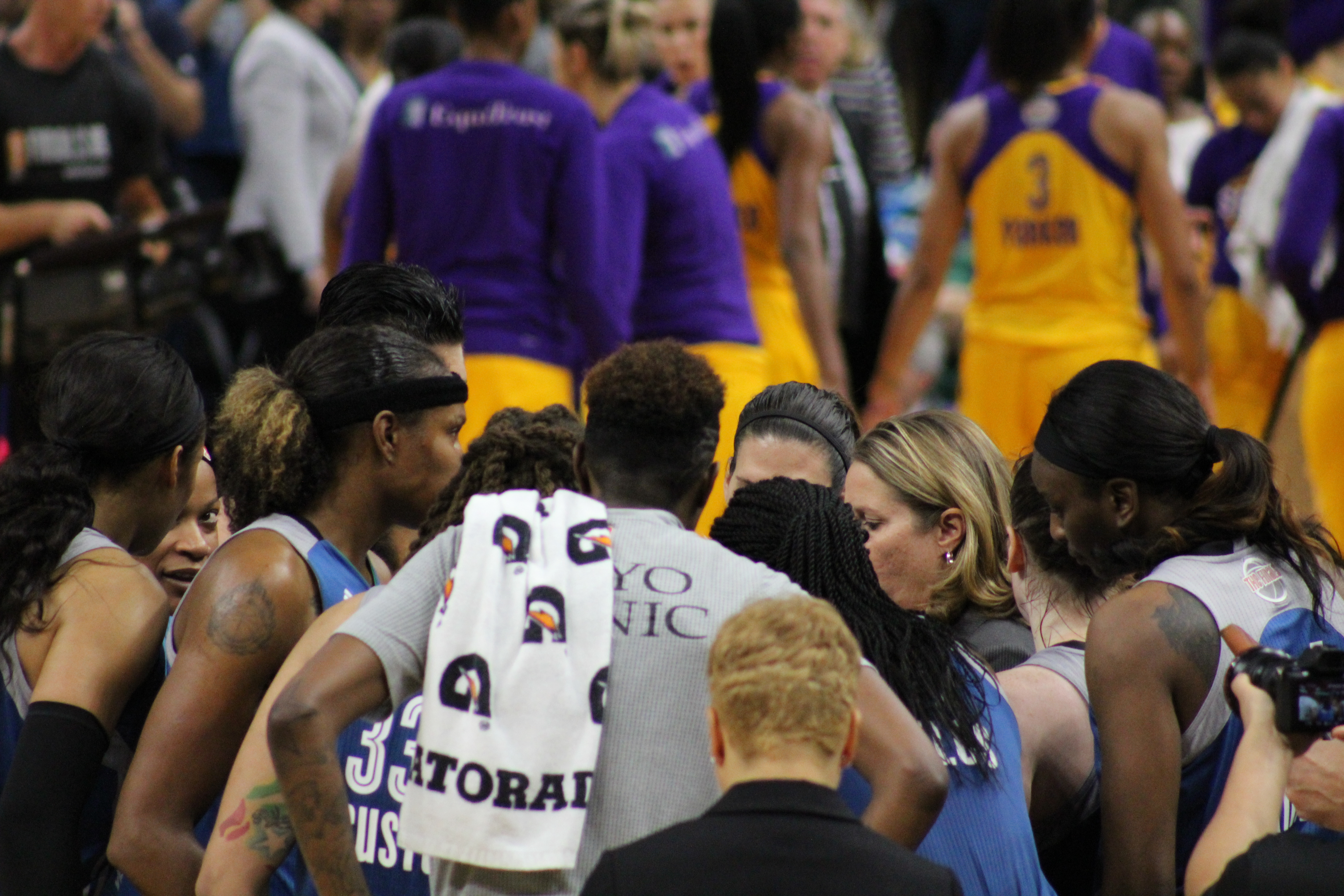 Timeout during the WNBA Finals 2016, Los Angeles Sparks at the Minnesota Lynx